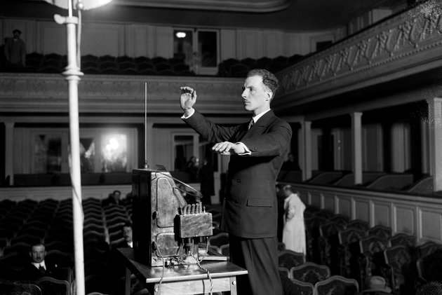 Lew Termen demonstrating Termenvox